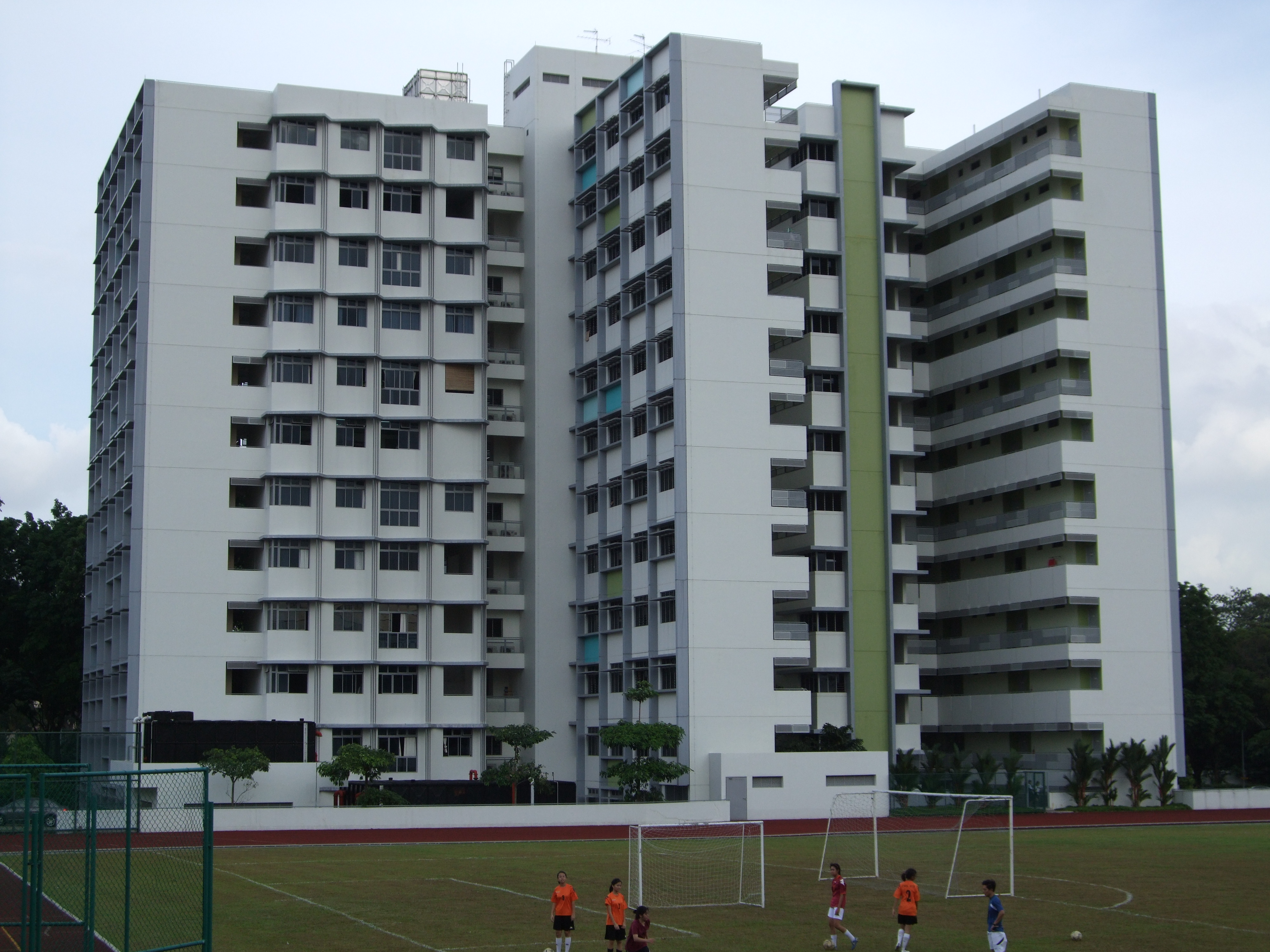 NUS High School Residence, the hall of residence of the National University of Singapore High School of Mathematics and Science.